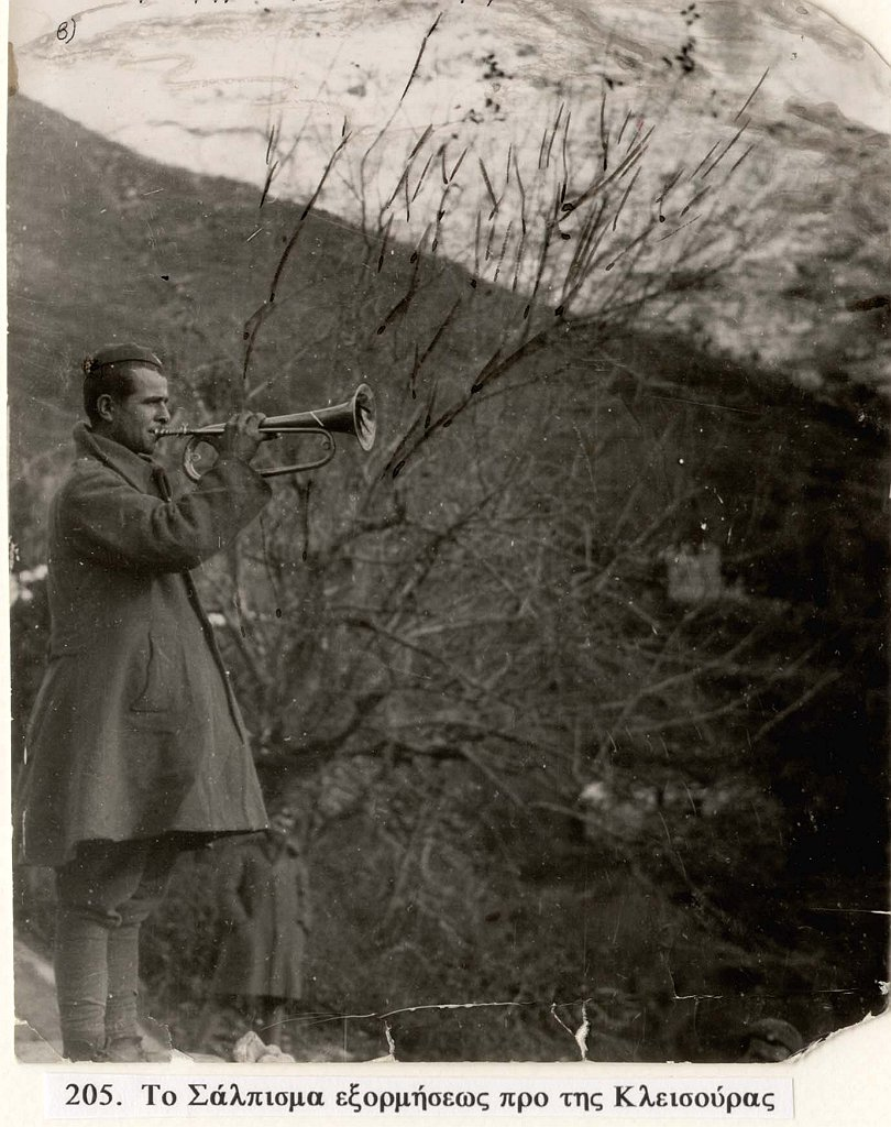 A Greek trumpeter gives the command to launch the military operation before the Capture of Kleisoura Pass.